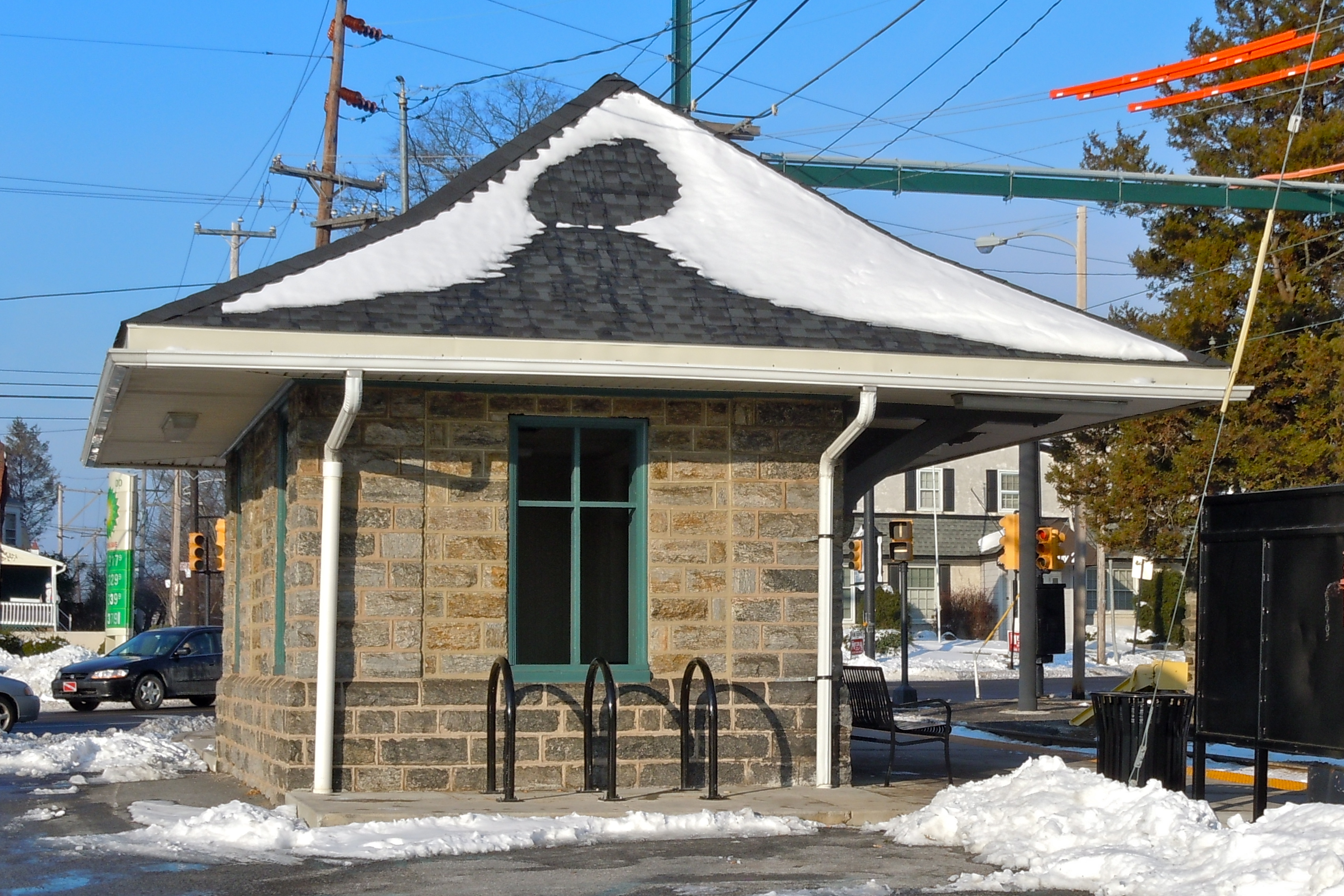 Providence Road (formerly Bowling Green) Station on the SEPTA 101 trolley in Media, Pennsylvania. On Providence Road near Baltimore Pike.